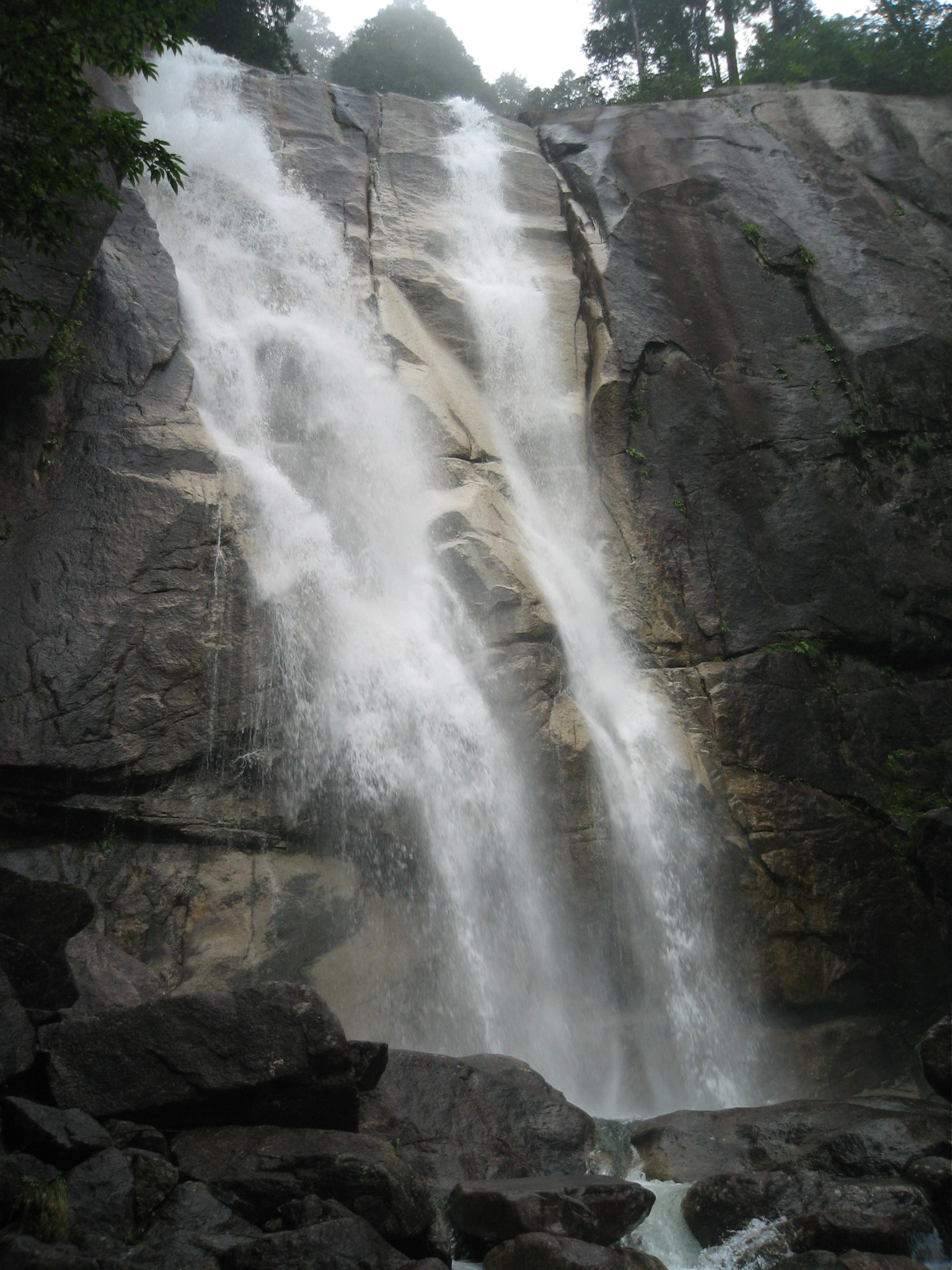 Tadachi Waterfall, Nagiso Town, Nagano